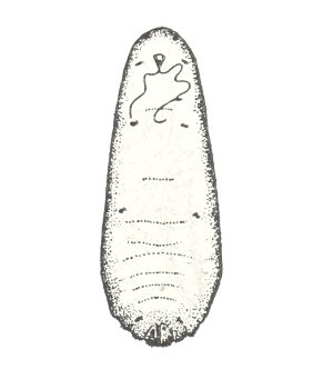 Cottony bamboo mealybug. Antonina crawi (Hemiptera: Pseudococcidae)